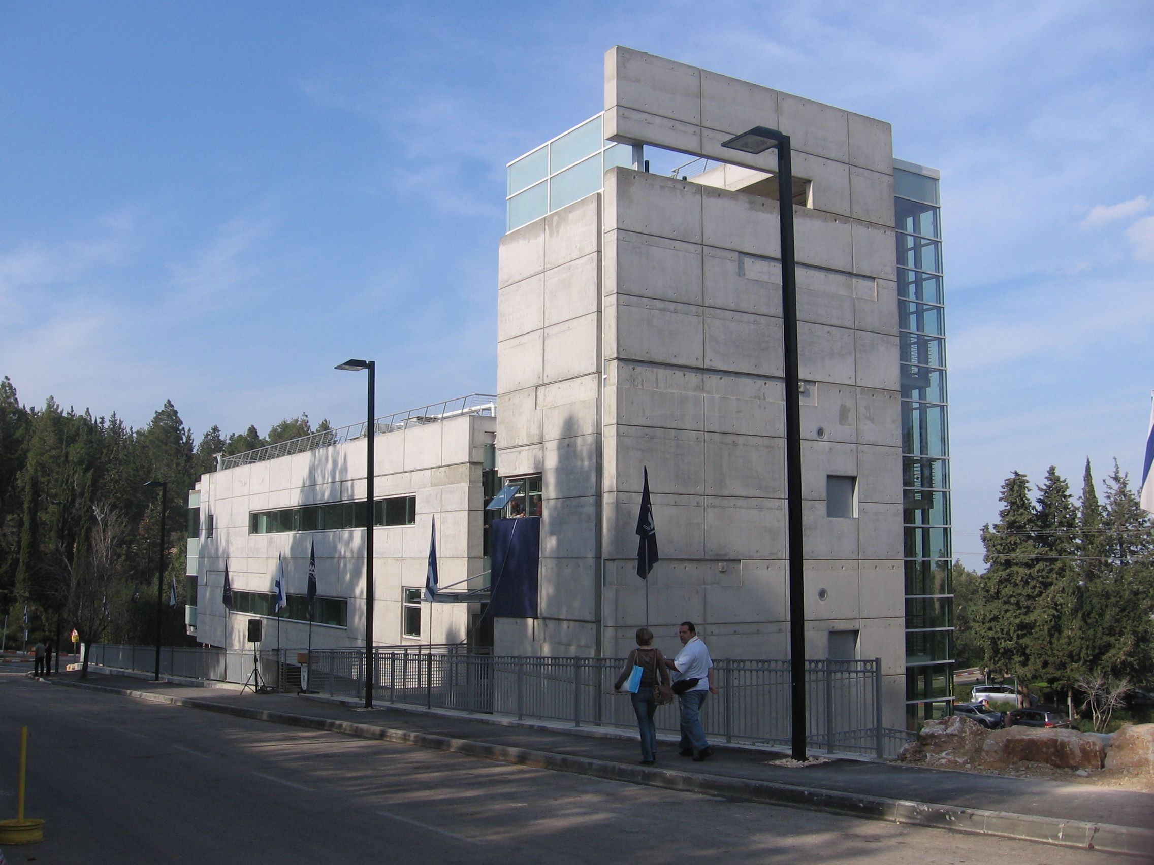 The front side of the Asher Space Research Institute in the Technion - Israel institute of technology.